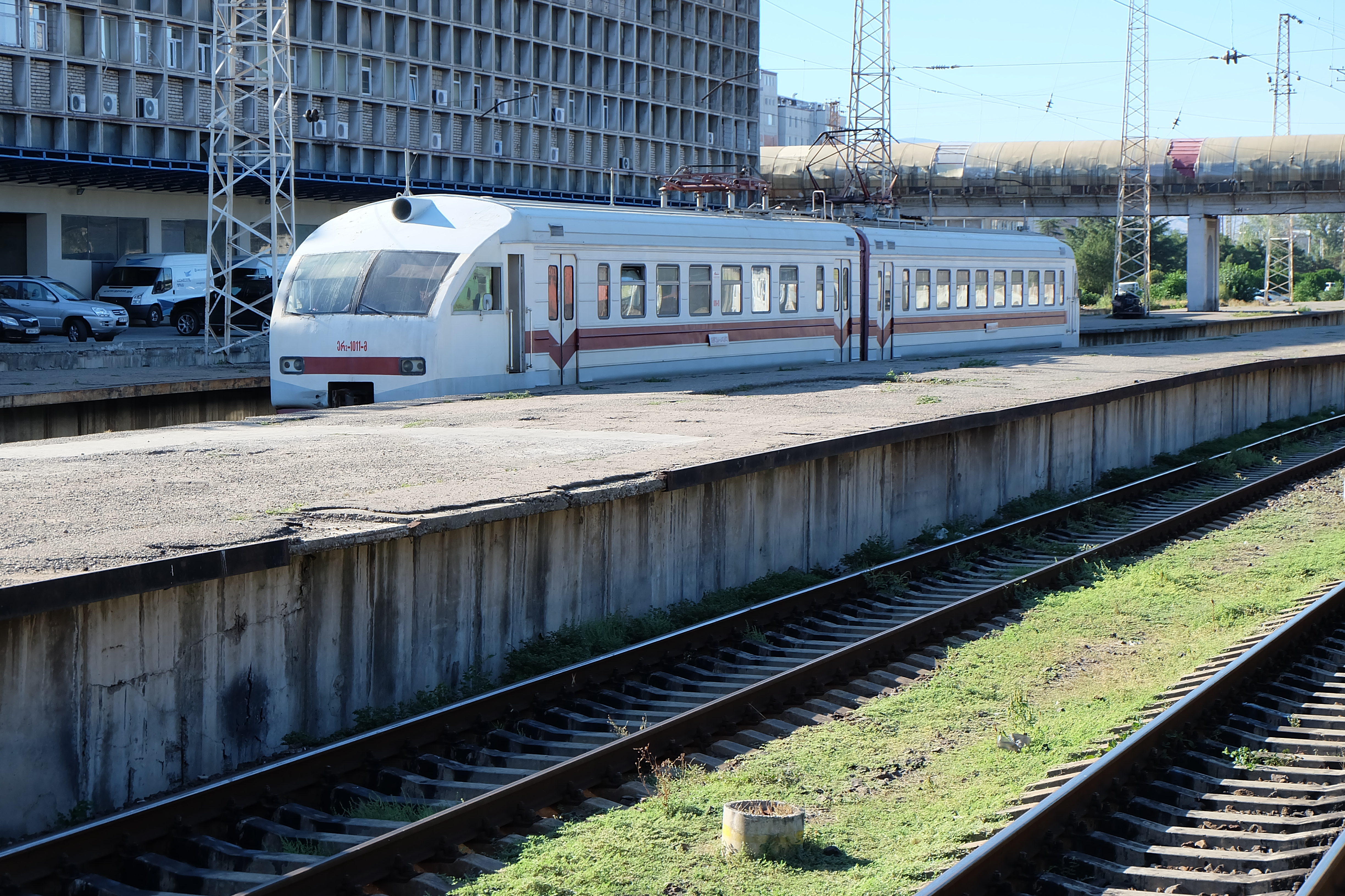 Tbilisi Airport shuttle train at the Tbilisi Central Station.